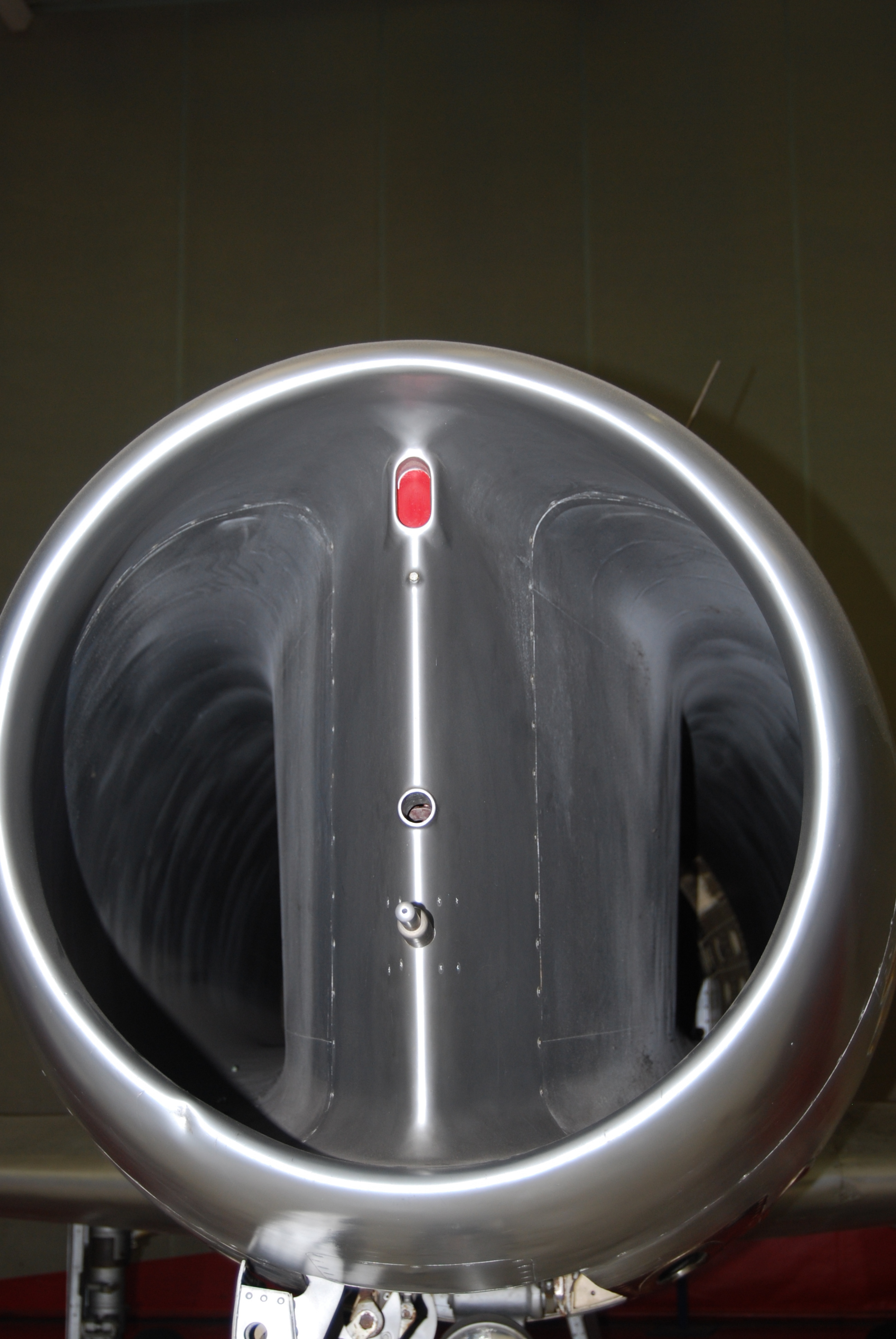 Photo ref; DSC1225-2012